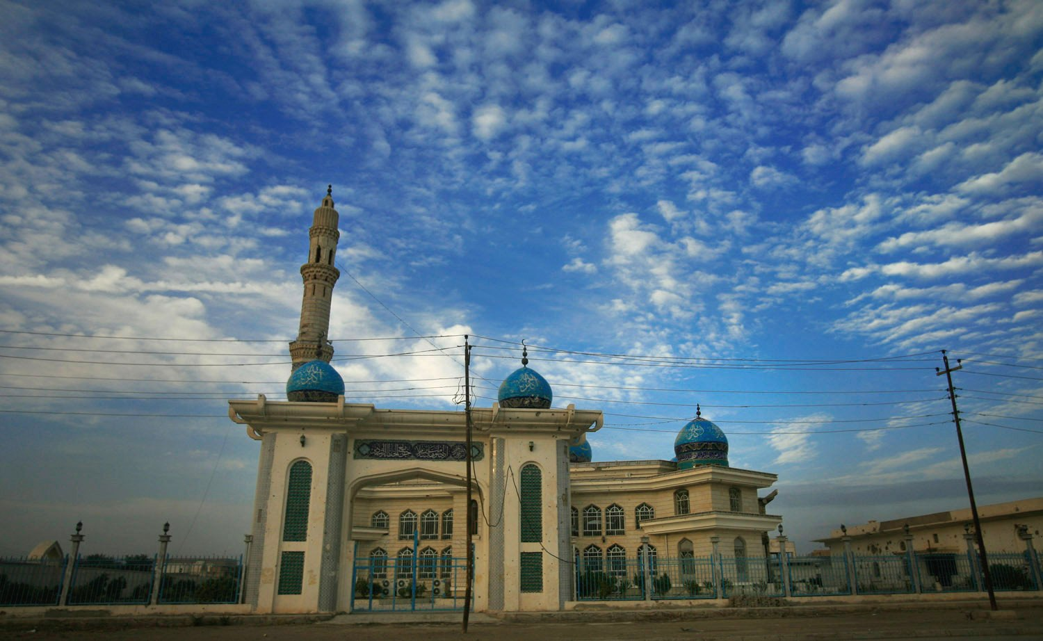 Mosque in Fallujah.